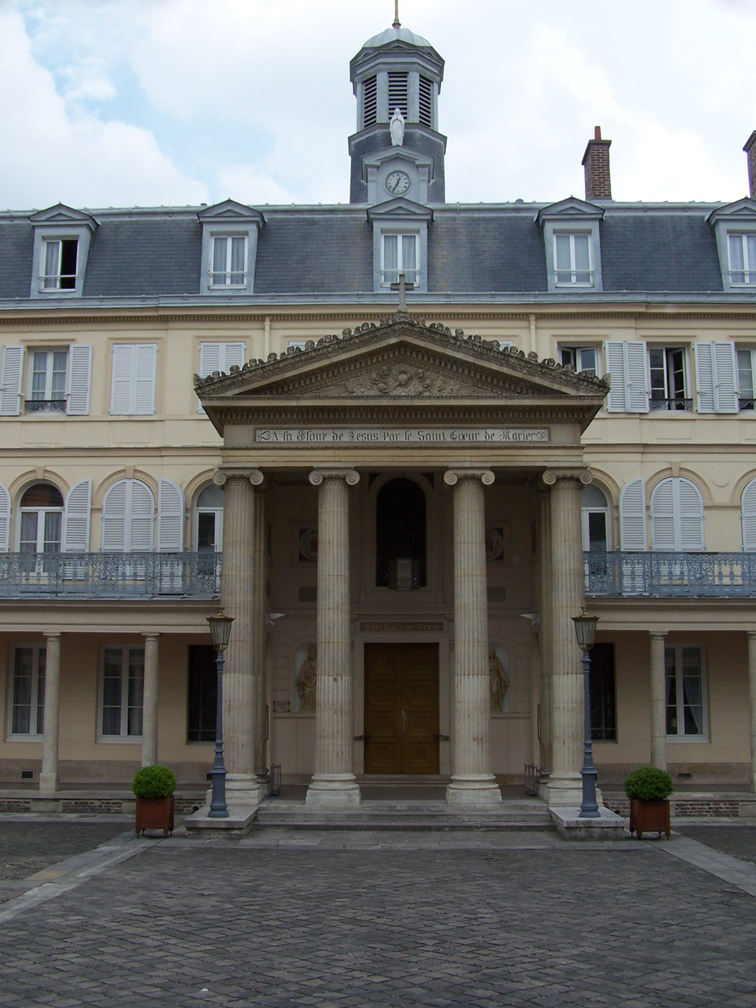 View of the chapel (built in 1840 by architect Antoine Chaland) of the Dames Augustines du Saint-Cœur-de-Marie covent at rue de la Santé in Paris